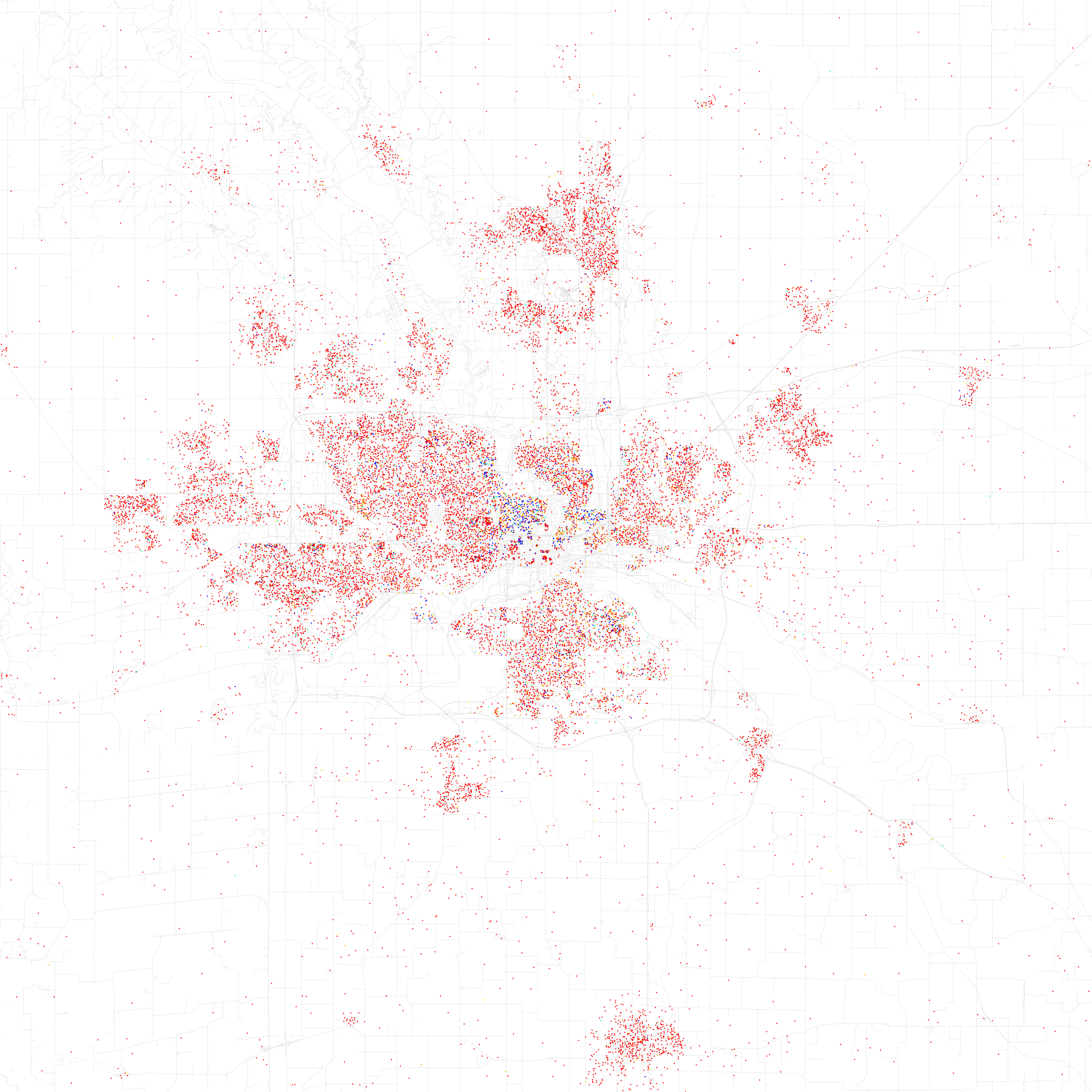 Maps of racial and ethnic divisions in US cities, inspired by Bill Rankin's map of Chicago, updated for Census 2010. Red is White, Blue is Black, Green is Asian, Orange is Hispanic, Yellow is Other, and each dot is 25 residents. Data from Census 2010. Base map © OpenStreetMap, CC-BY-SA